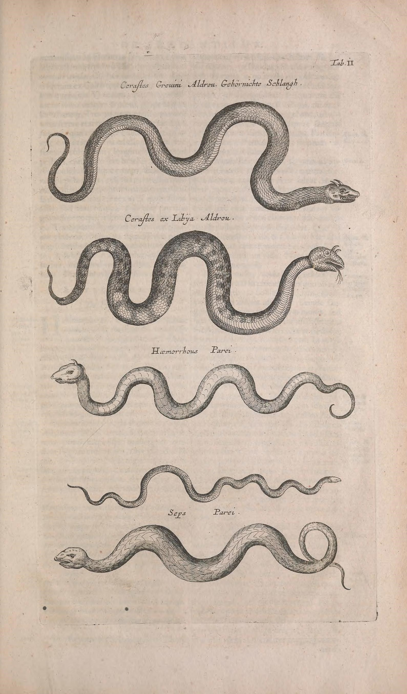 TaL.h L ci\ \xjles Greumi ^dUrati. G-ehorntche Schlanjh . CertJtes ex JLabya, ^Alarou, • Hcemorrhcnus -trczret